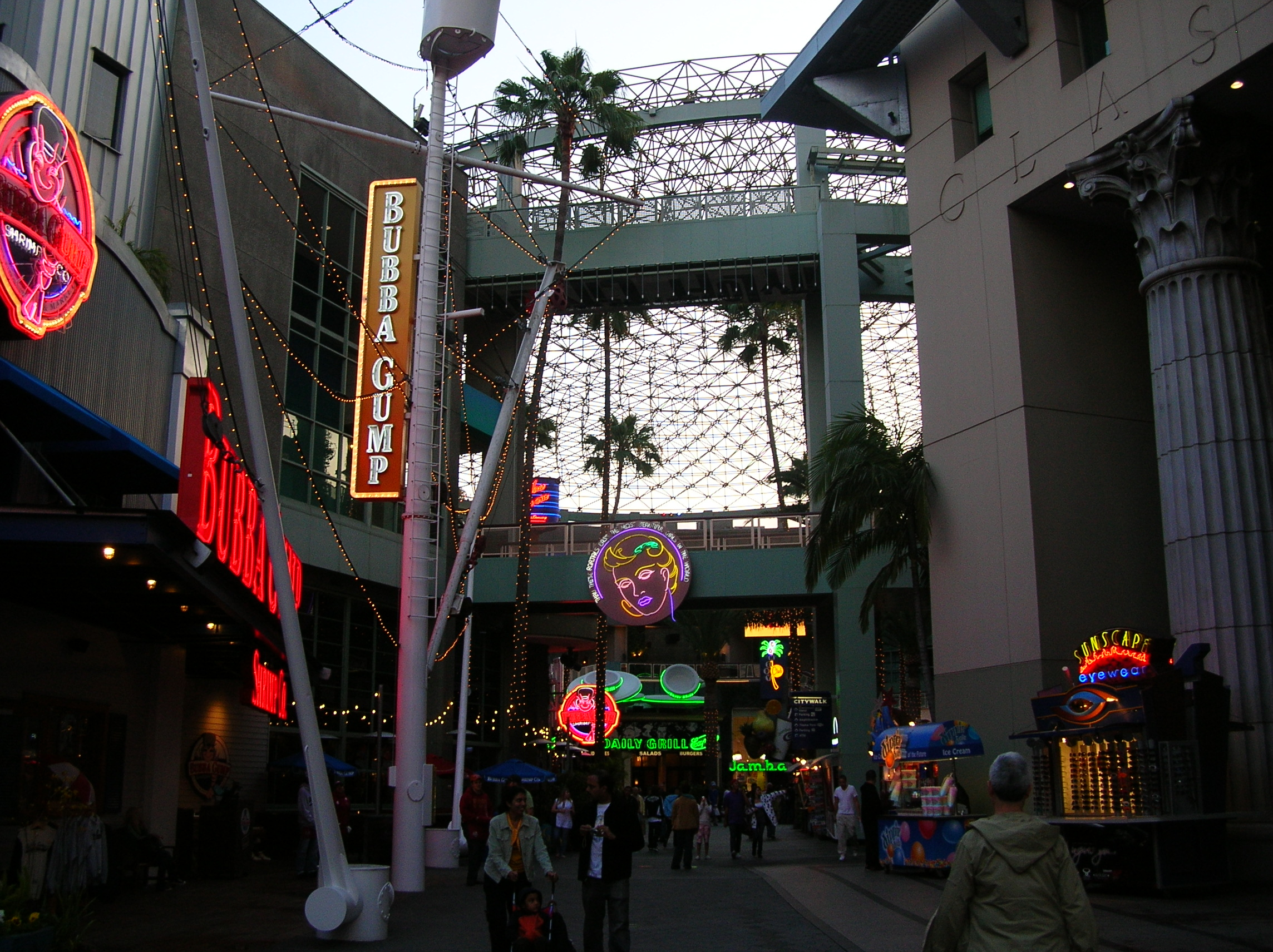 Universal CityWalk Hollywood in Universal City, California.